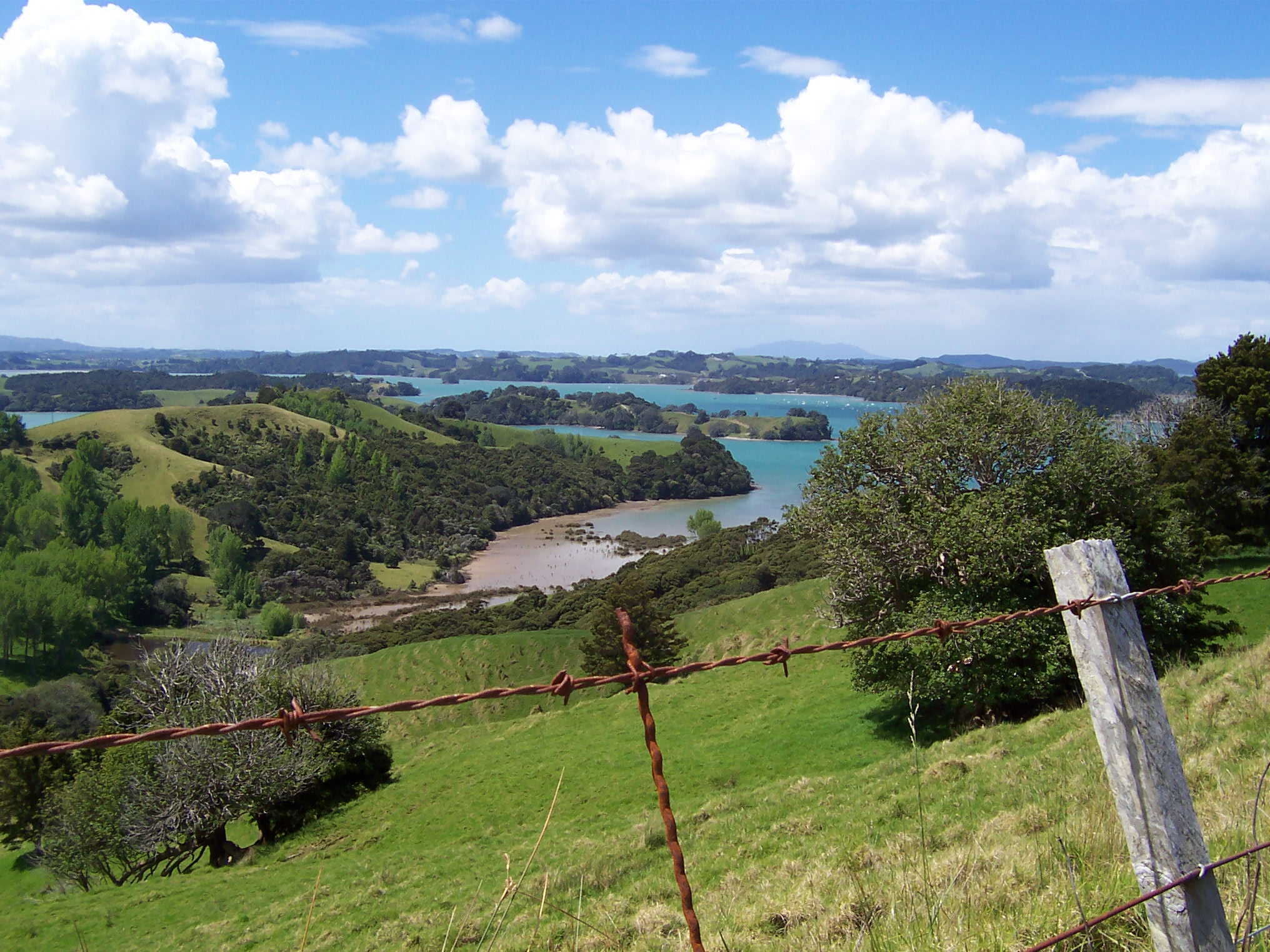 Mahurangi Harbour